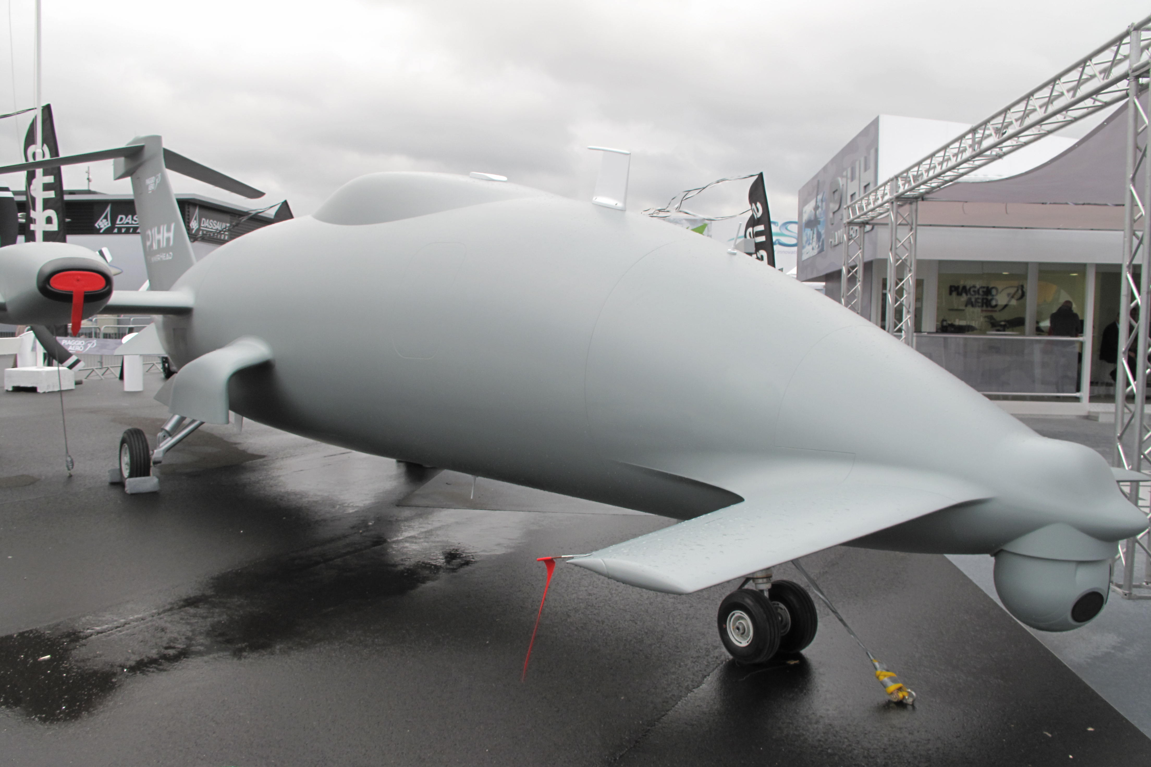 Italian UCAV Piaggio P.1HH HammerHead at Paris Air Show 2013